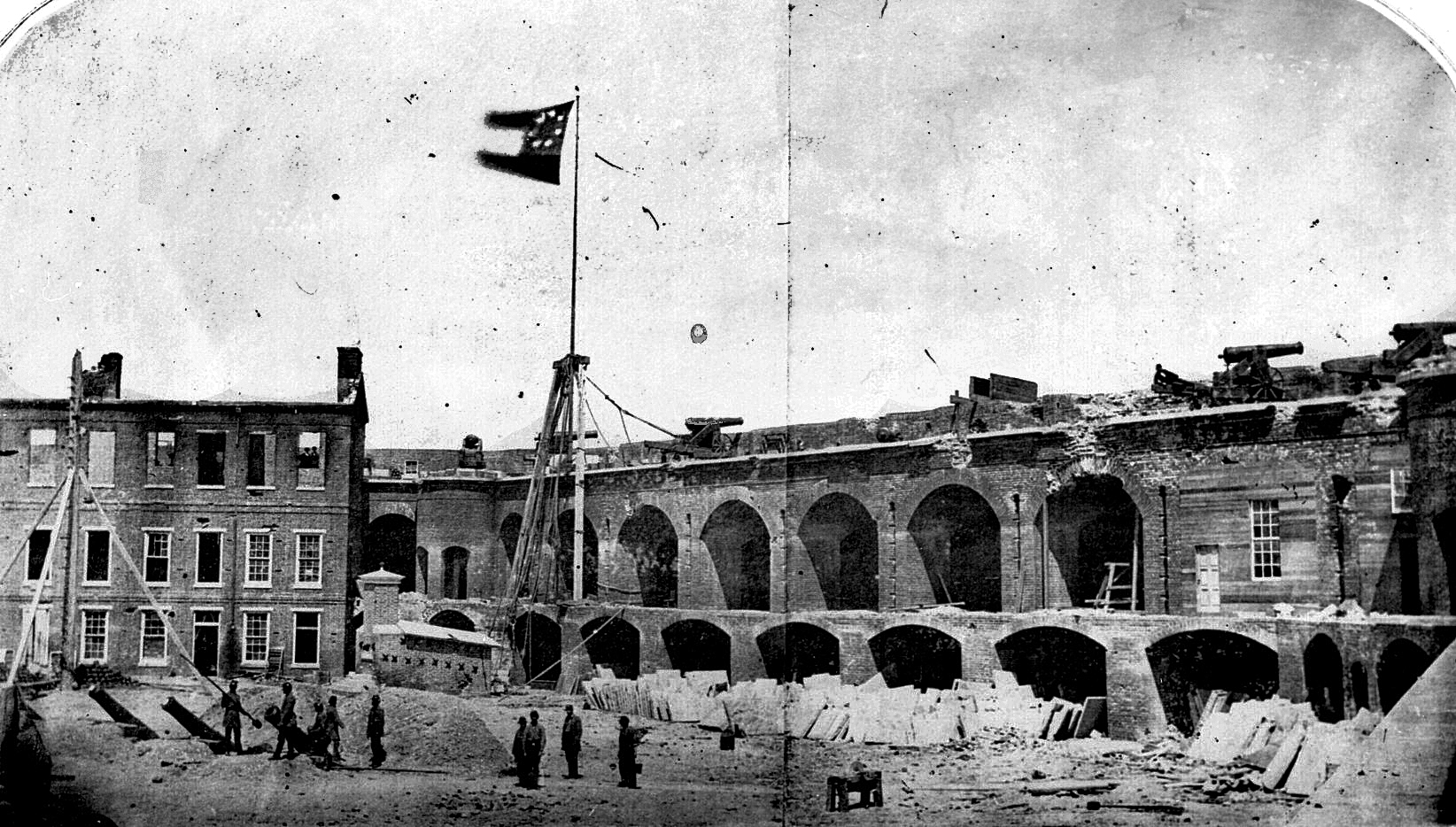 Fort Sumter in the Charleston Harbor in Charleston, South Carolina, April 14, 1861, under the first Confederate national flag (the 'Stars and Bars'). U.S. National Archives image. Fort Sumter after the Surrender, 1861.